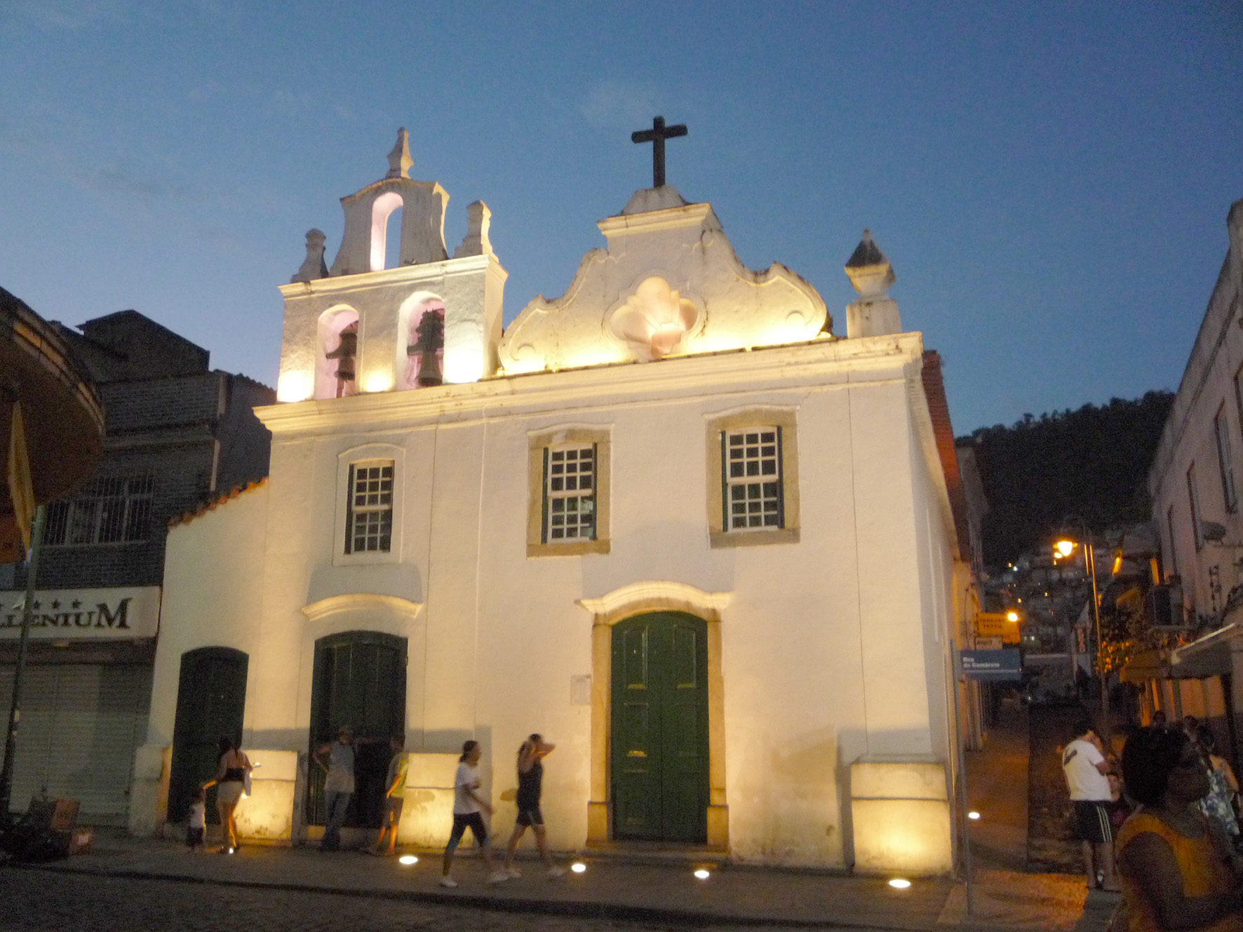 Luzia church (built 17th-18th centuries) in the centre of Angra dos Reis, Brazil